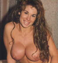 Tammy DUKES